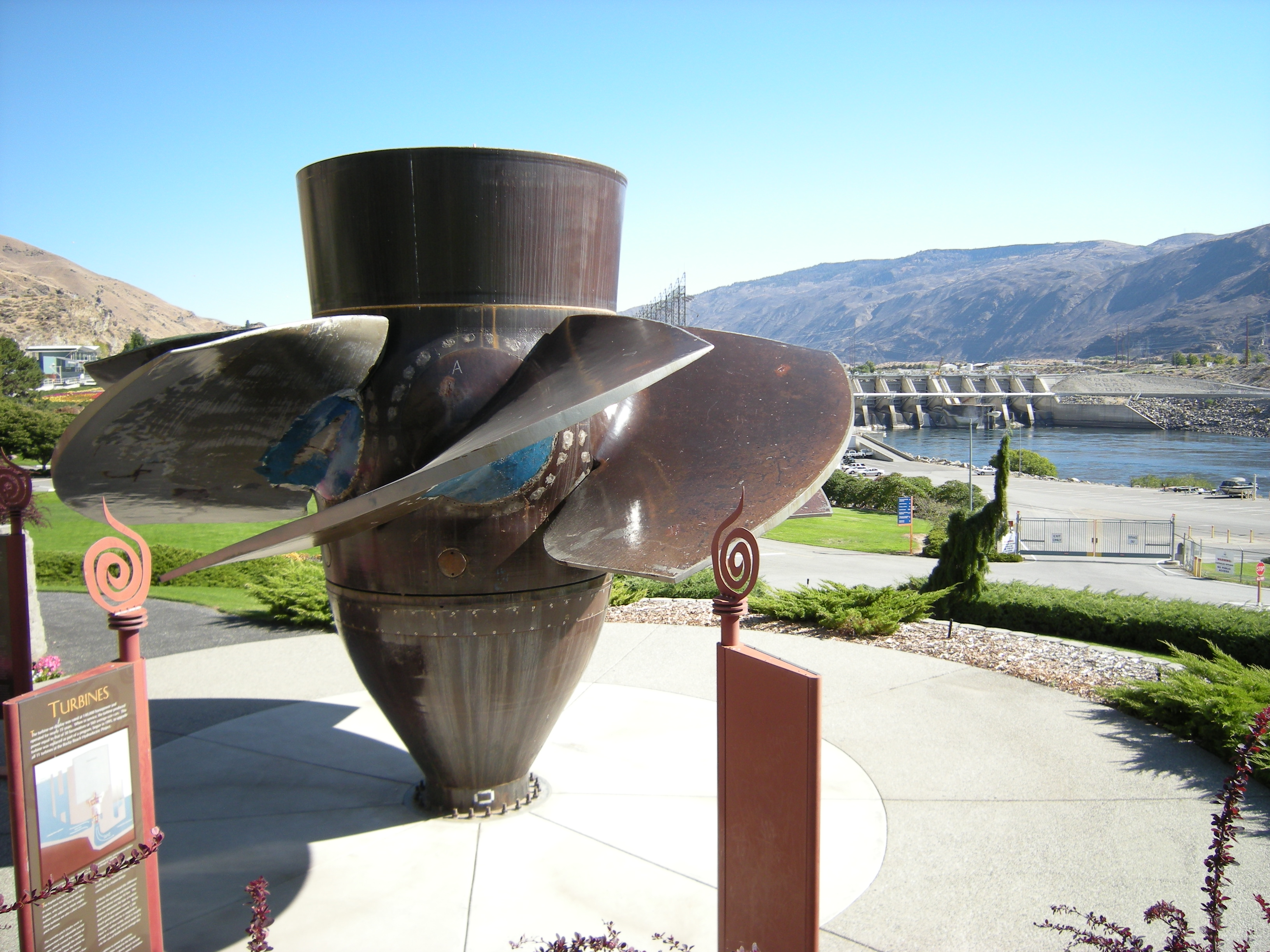 Turbine blade and Rocky Reach Dam, Columbia River, Washington, USA.